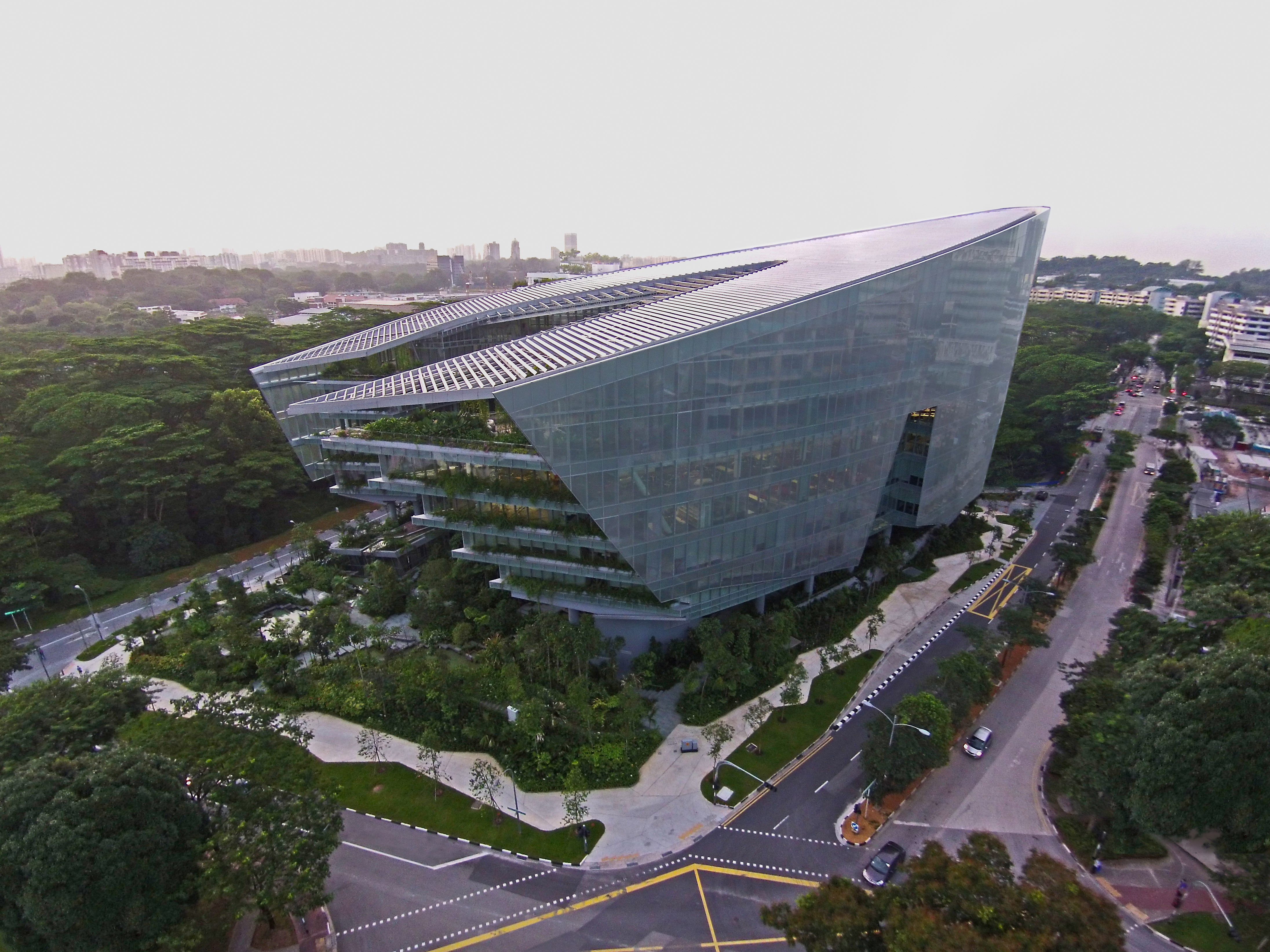 Sandcrawler (Site named CX2-1) is an eight storey building owned by Lucas Real Estate Singapore and home to Lucasfilm Singapore, Walt Disney Company (Southeast Asia) and ESPN Asia Pacific. Architects: Aedas